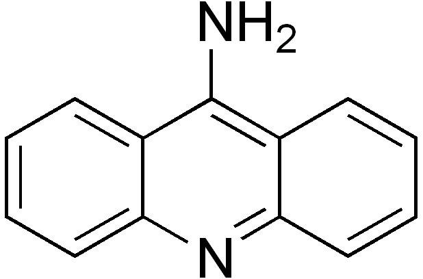 chemical structure of 9-aminoacridine